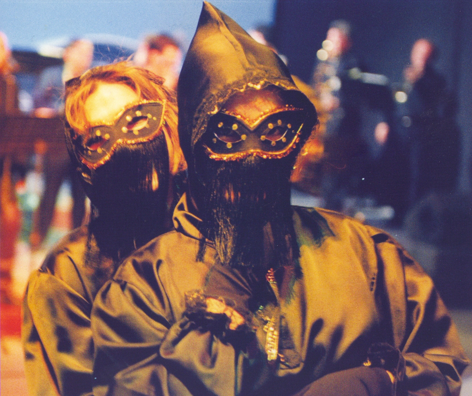 Drini 19:46, 10 December 2006 (UTC)